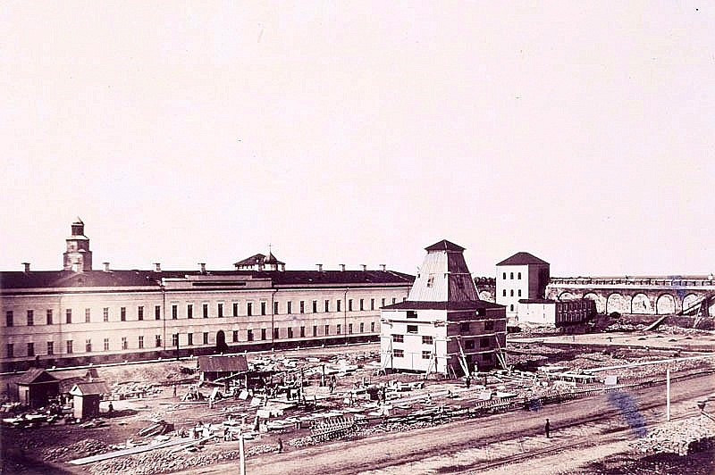 1862. Erection of The "Millennium of Russia" Monument in the Novgorod Kremlin